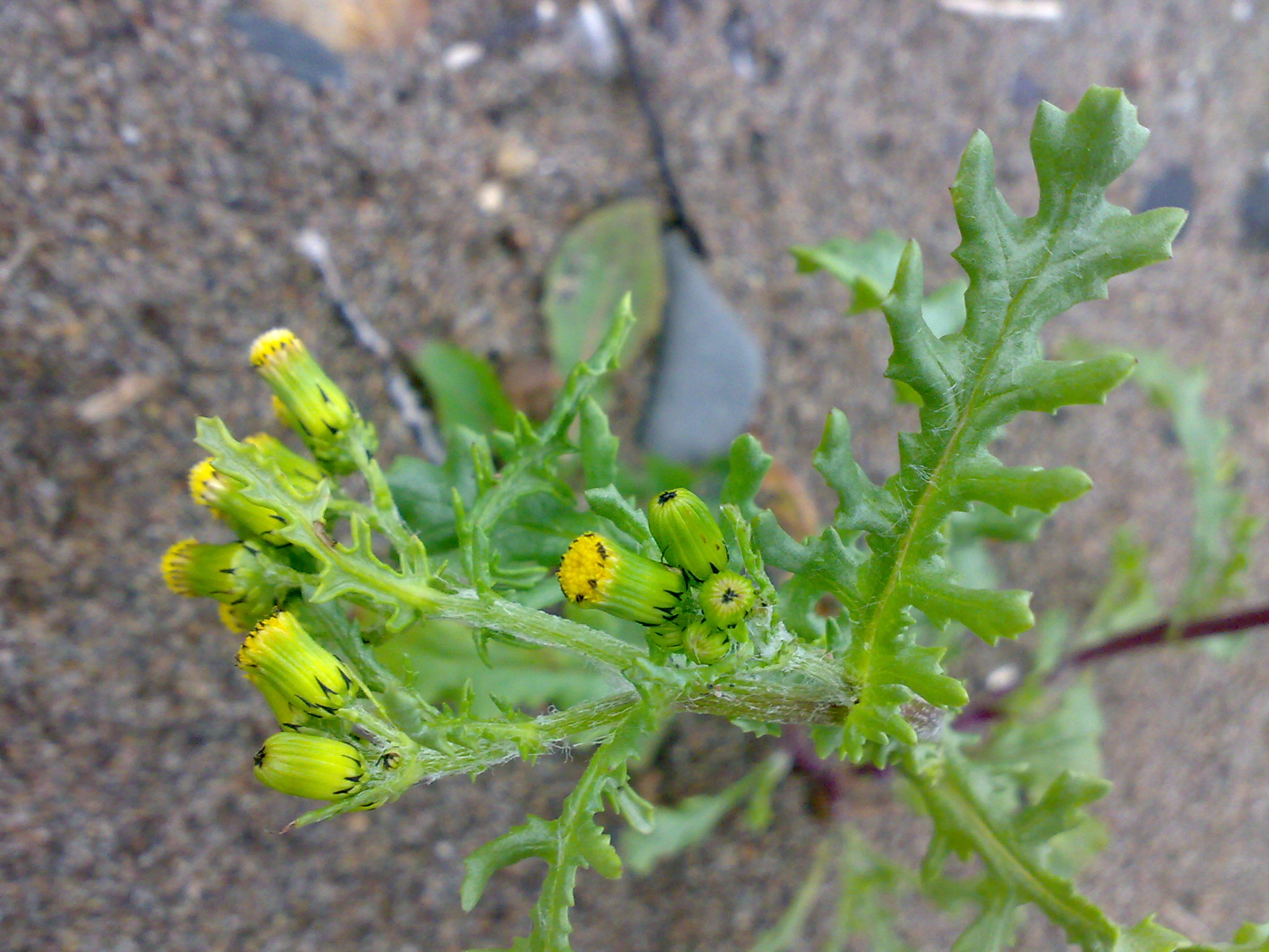 Senecio vulgaris in Jelöy, Moss, Norway